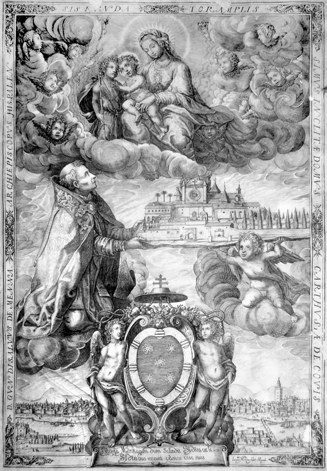 Woodcut frontspice from a Graduale Comissioned by the Charterhouse of Seville, depicting the founder of the friary, Bishop Gonzalo de Mena, offering a model of the charterhouse to Christ, the Virgin and St John the Baptist. Printed in 1630. signed, but illegible: Iohannes M???